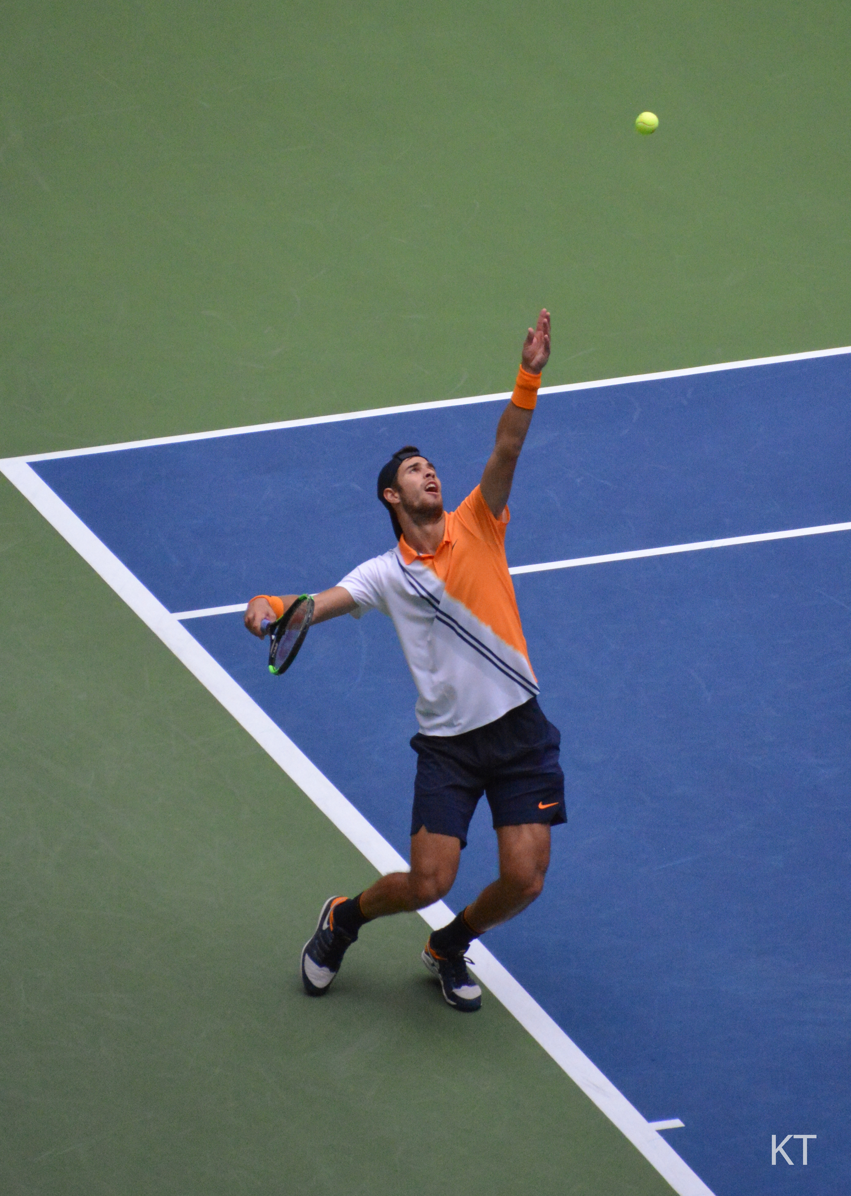 Karen Khachanov v Rafael Nadal on Arthur Ashe stadium. Day 5 of US Open 2018.